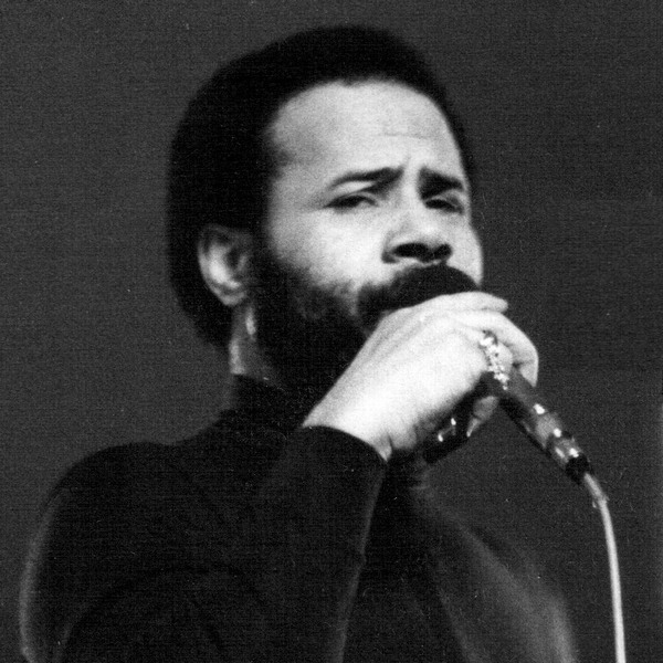 Chicago blues harmonica player and singer Little Mack Simmons in France.